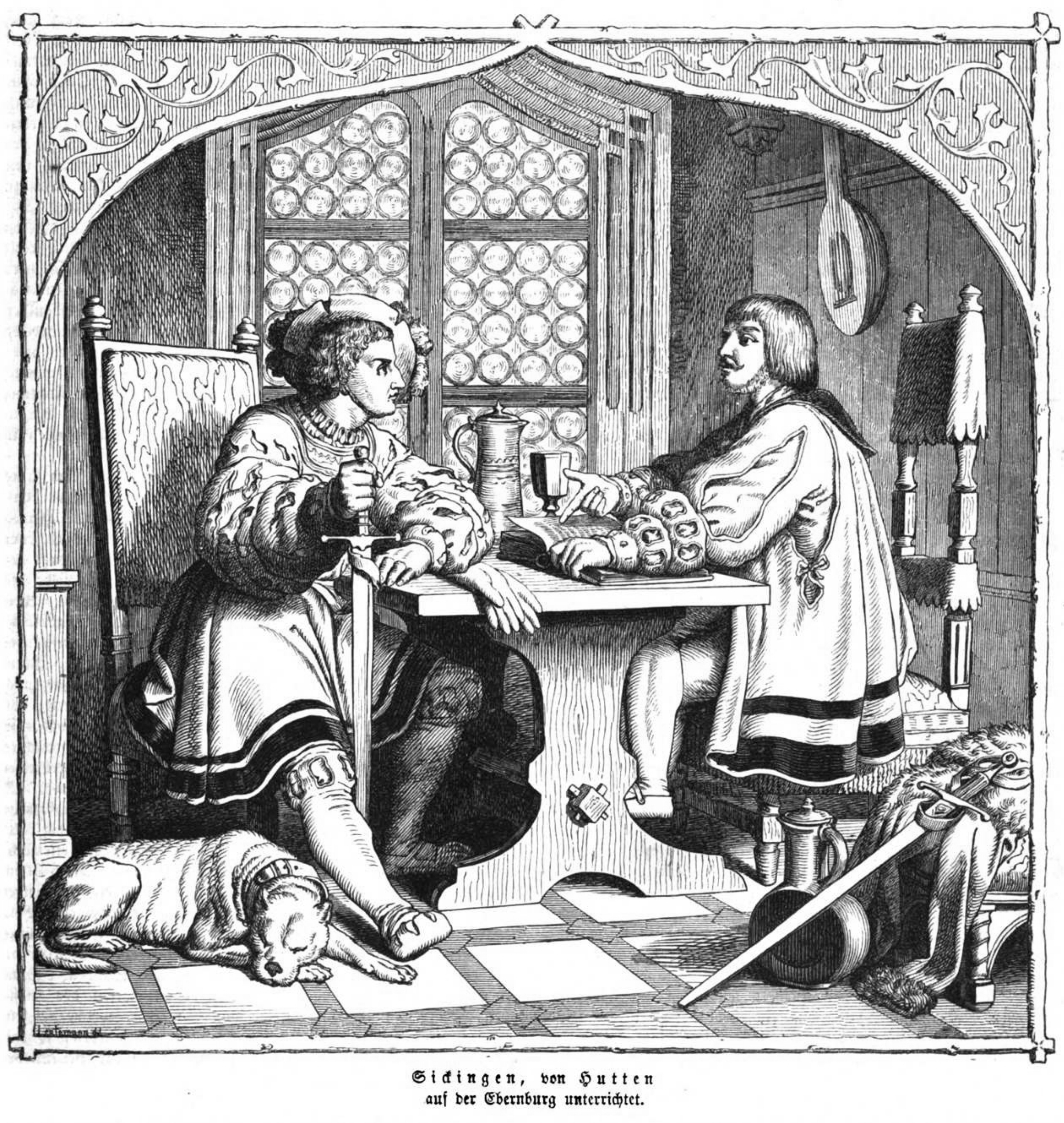 caption: "Sickingen, von Hutten auf der Ebernburg unterrichtet."